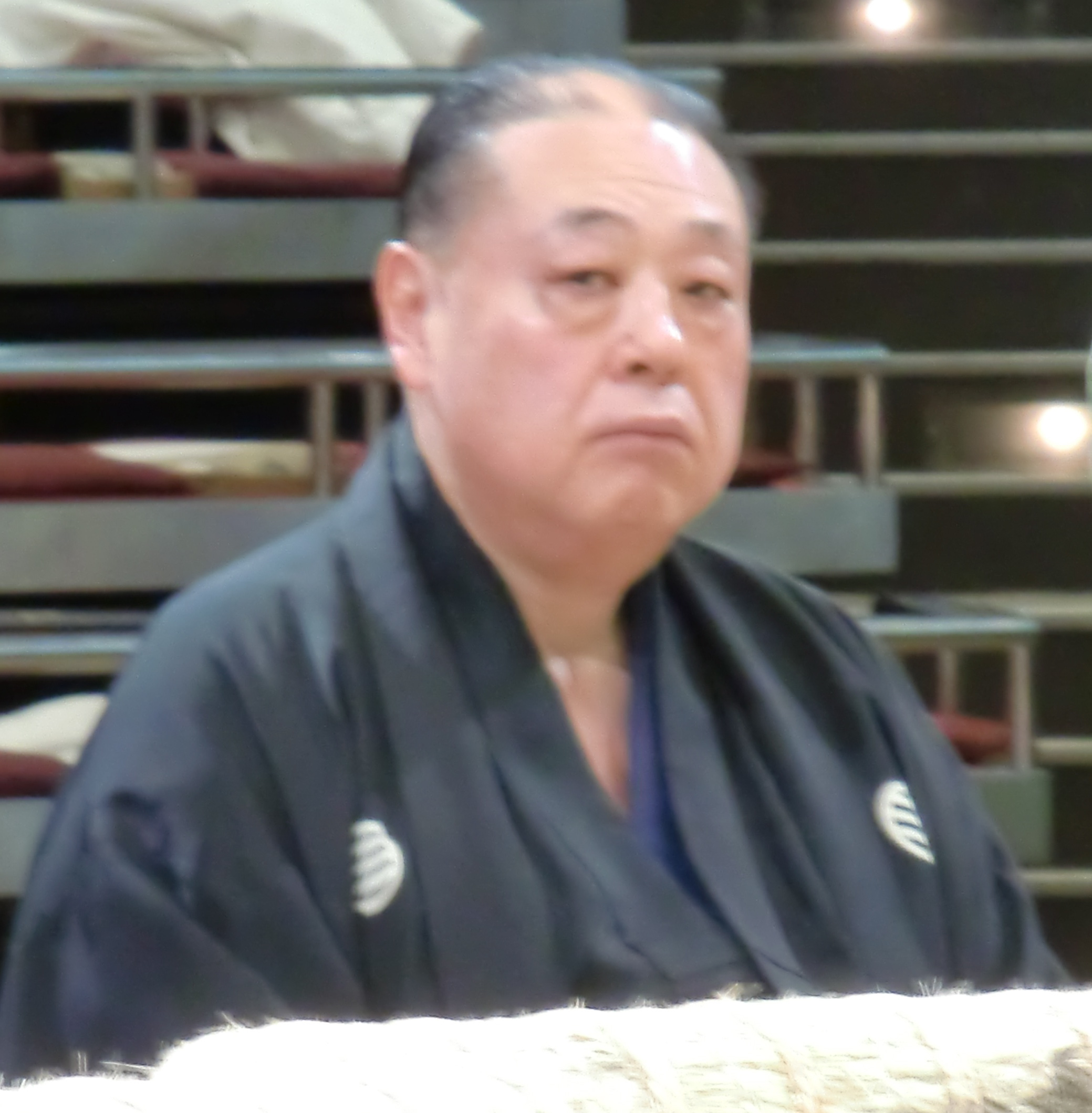 taken at Jan 2010 tournament